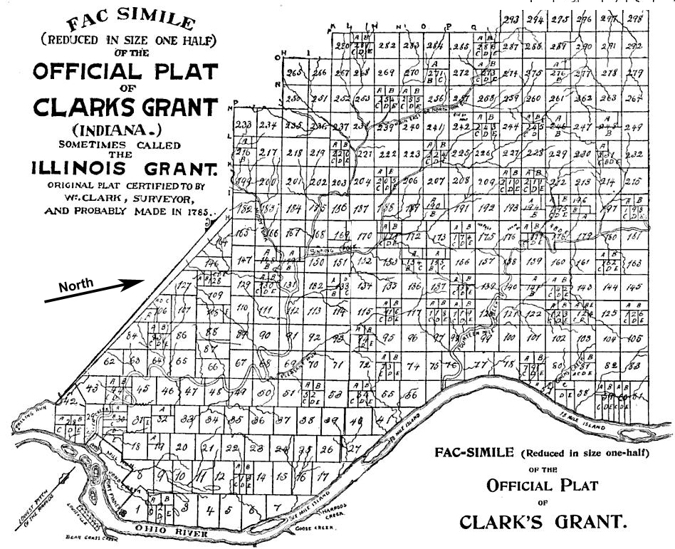 A map of Clark's grant taken from a book published in 1896. Note, this is two images put together, there is a slight different in the toward the lines in the middle of the image where they do not line up perfectly.